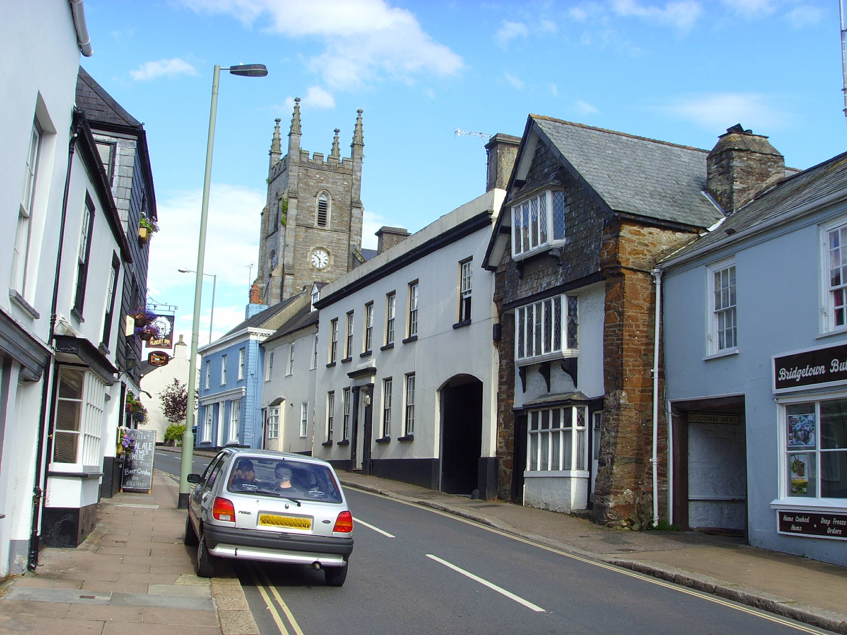 Bridgetown, Totnes, Devon, England, with the tower of St John the Evangelist parish church, Bridgetown, Devon